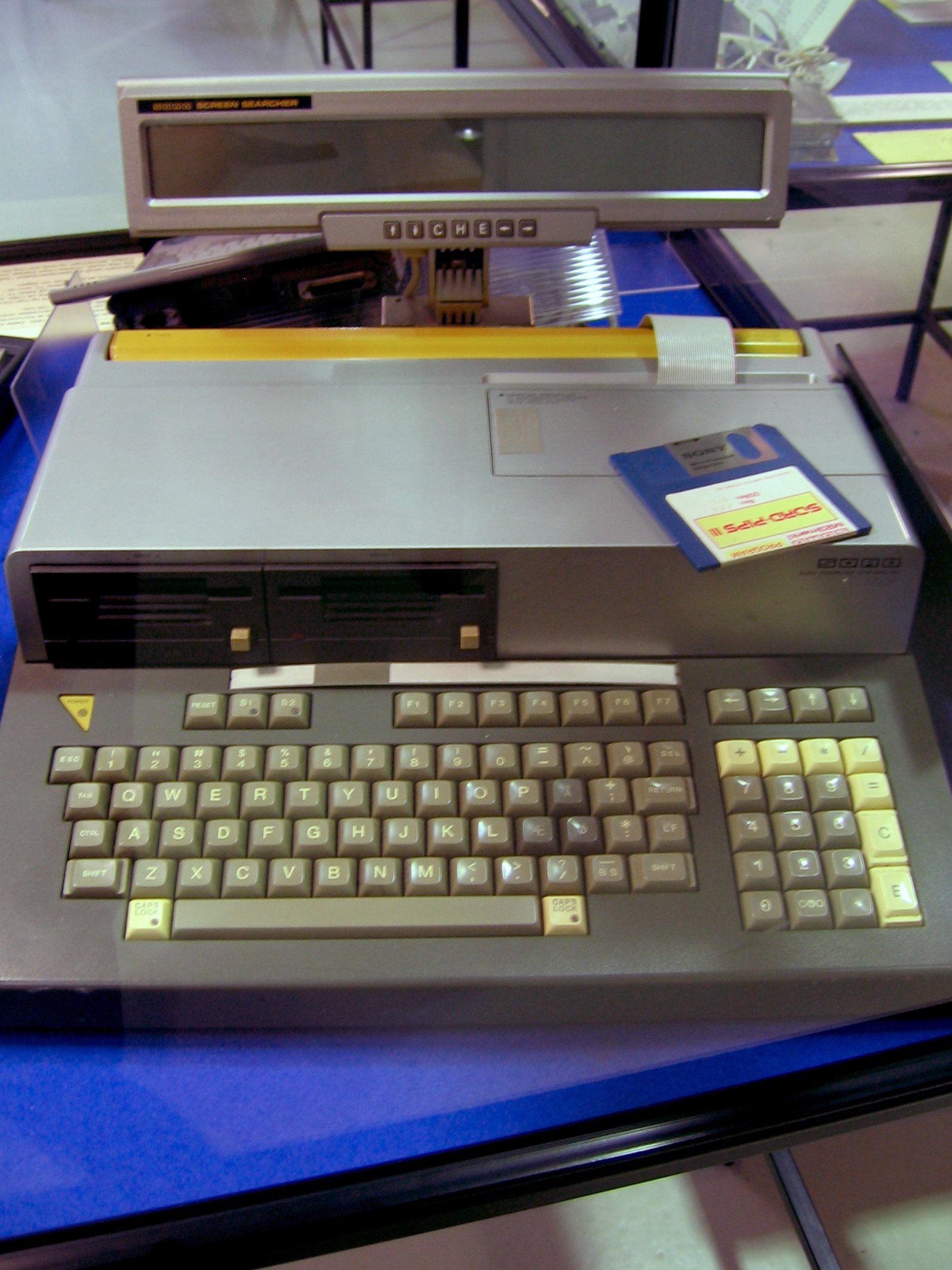 A Sord M23P "transportable" personal computer with LCD display (80x8).